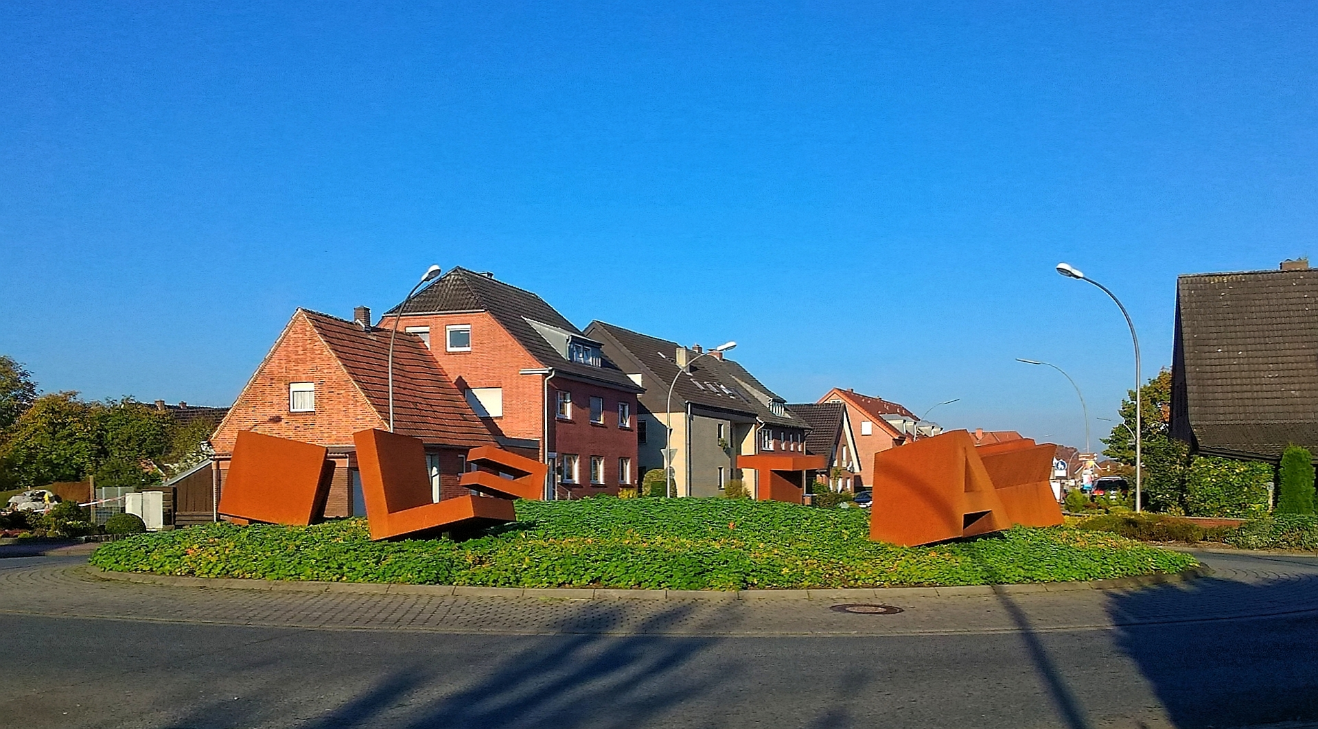 Kunst im Kreisverkehr Kiesbergstr. Ecke Frerener Str. Ecke Josefstraße, Lingen-Laxten. Die 1.60 m hohen, stählernen Buchstaben, L-A-X-T-E-N, lassen sich nur lesen, wenn man einmal ganz im Kreis herum fährt. Die Idee für die Gestaltung des ältesten Kreisverkehrs in Lingen entstand 2012 in Zusammenarbeit zwischen Ortsrat und Verwaltung. 2015 wurde das Kunstwerk realisiert.